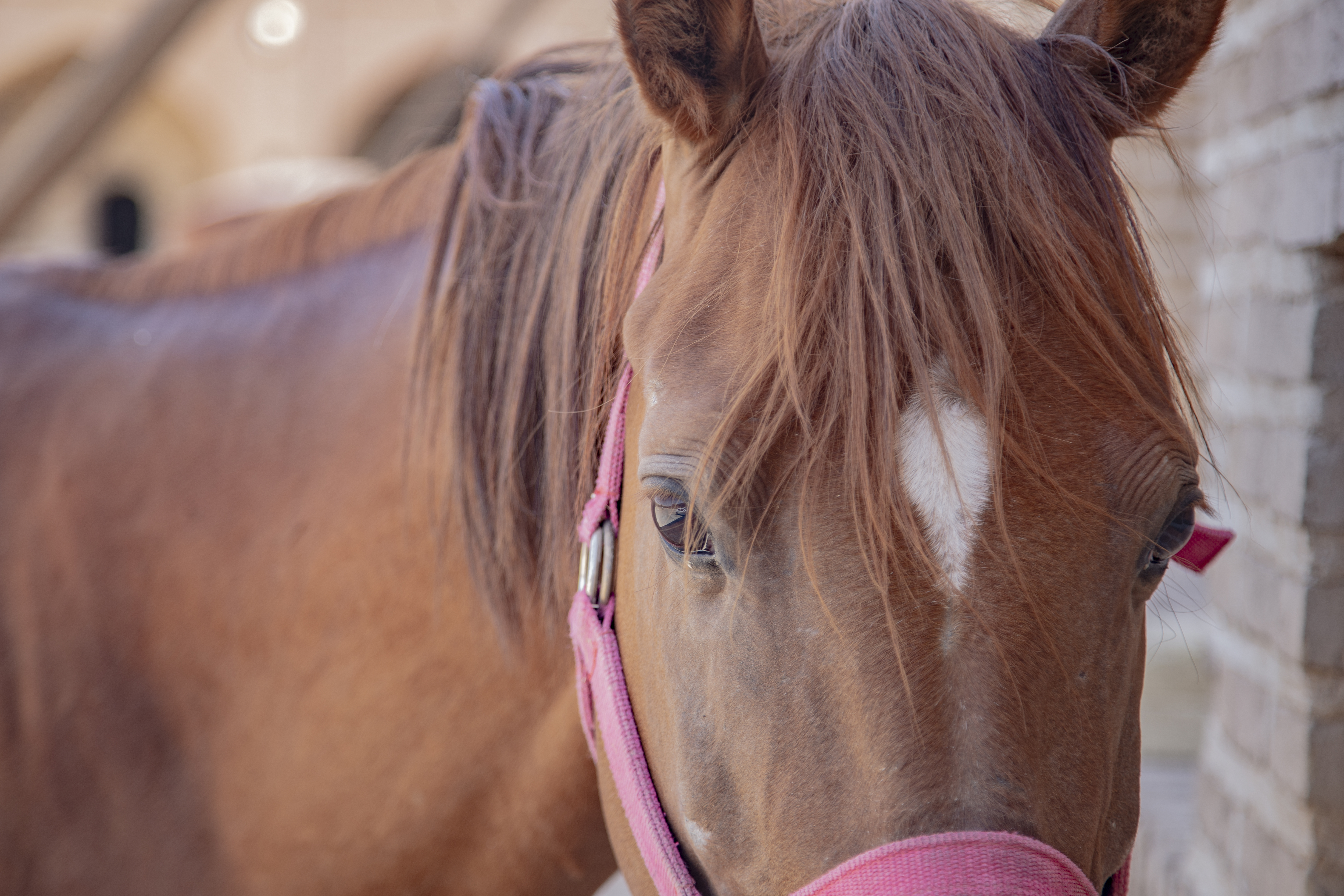 The horse is one of two extant subspecies of Equus ferus. It is an odd-toed ungulate mammal belonging to the taxonomic family Equidae.